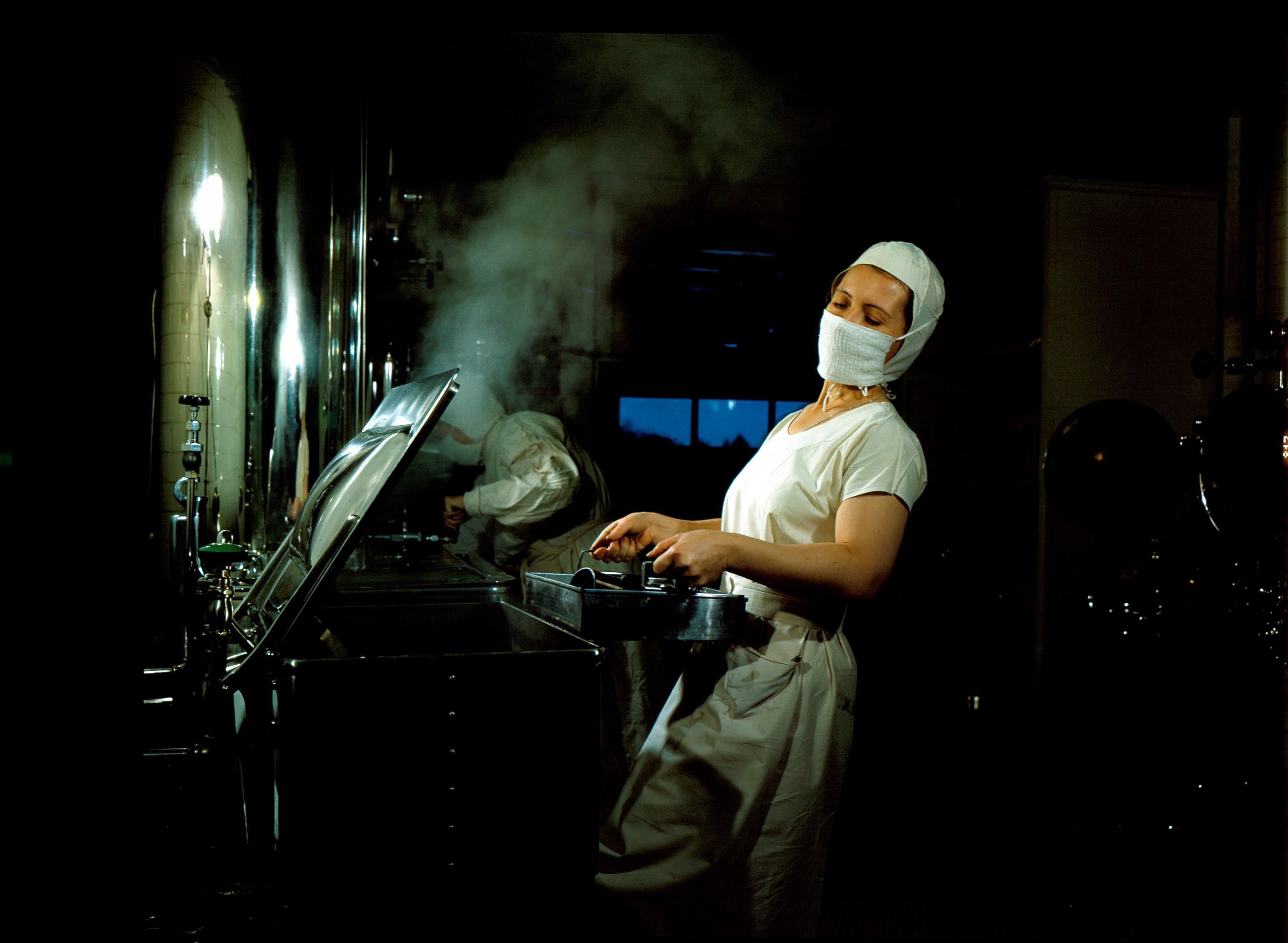 Sterilizing equipment? Autoclave?